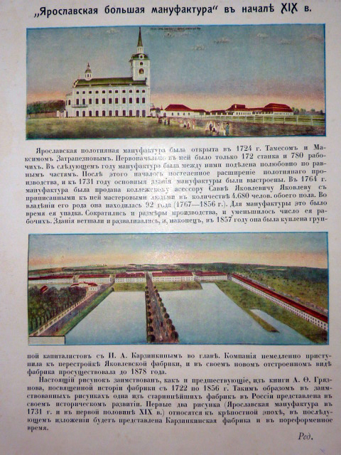 Manufactory in Yaroslavl